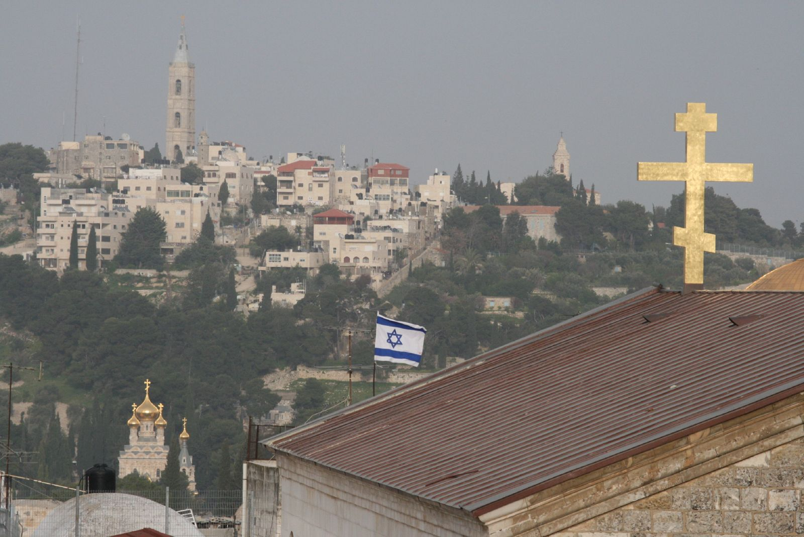 roof and cross on the Russian Church, the Old City of Jerusalem - in the distance, Mount of Olives